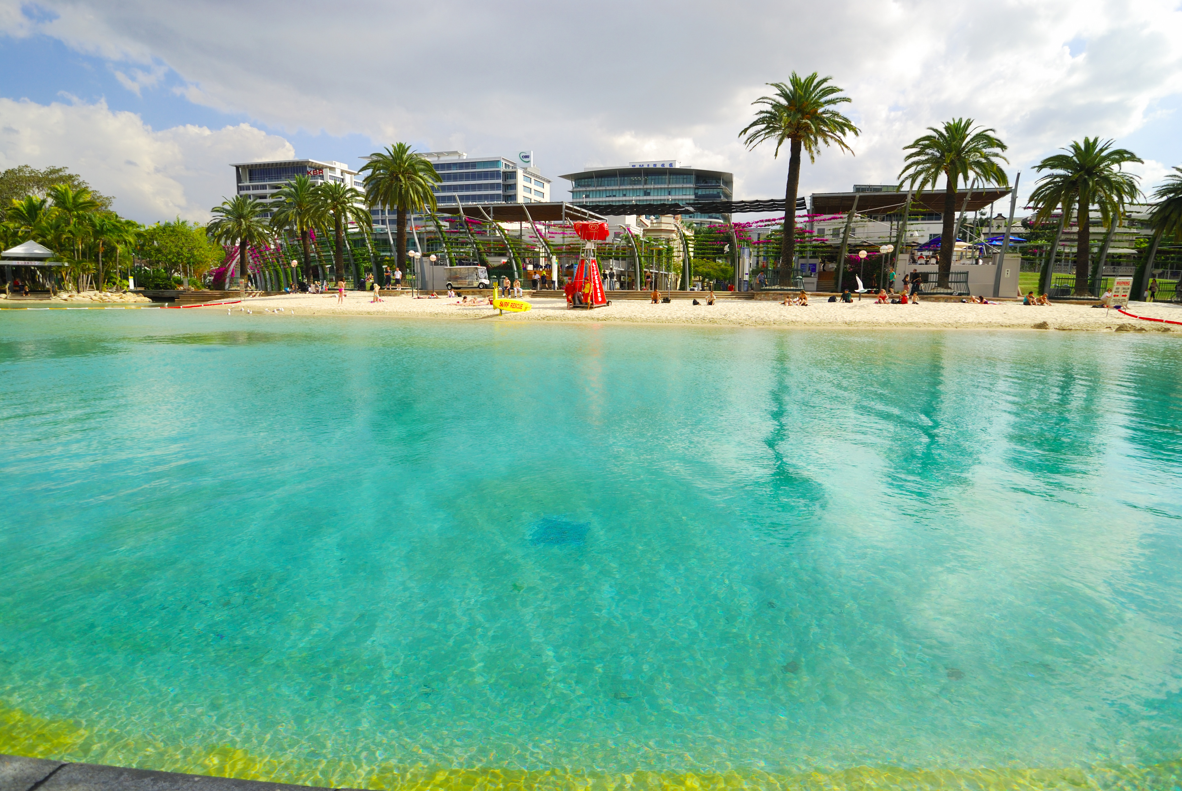 Streets Beach at Soutbank